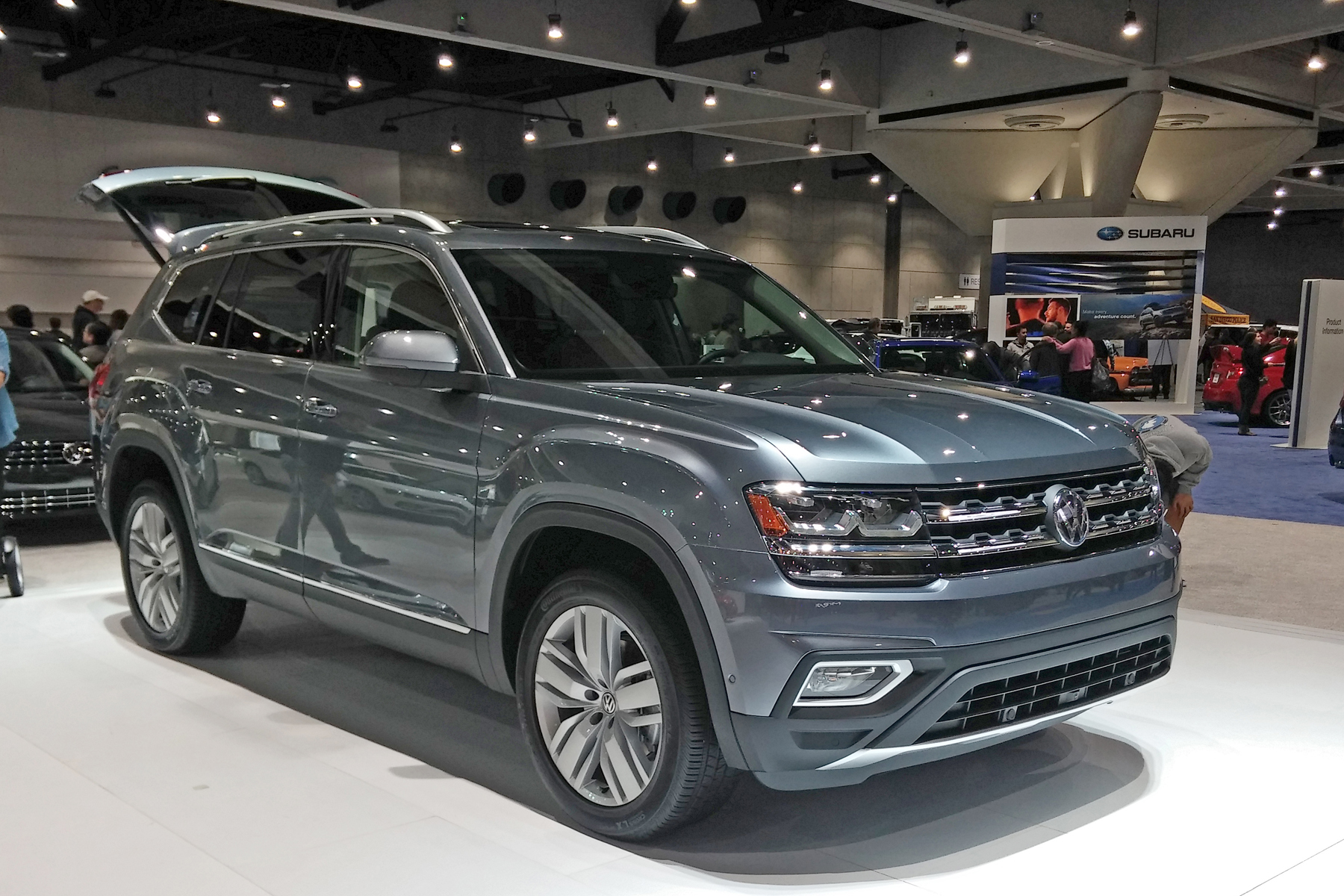 2017 Volkswagen Atlas SUV concept.